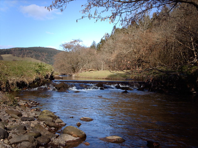 Kip Water. A small weir, one of several on this stretch of the river. Bargane Hill is visible in the background, Idzholm Plantation is to the right.